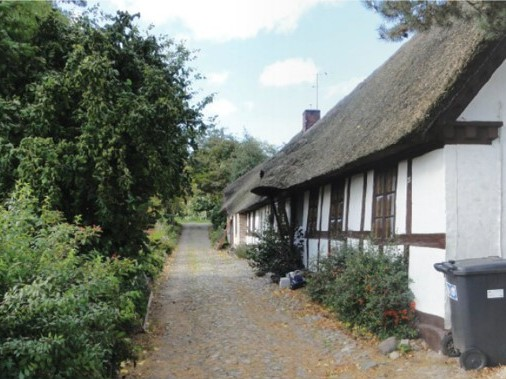 Stovring Brauer's House